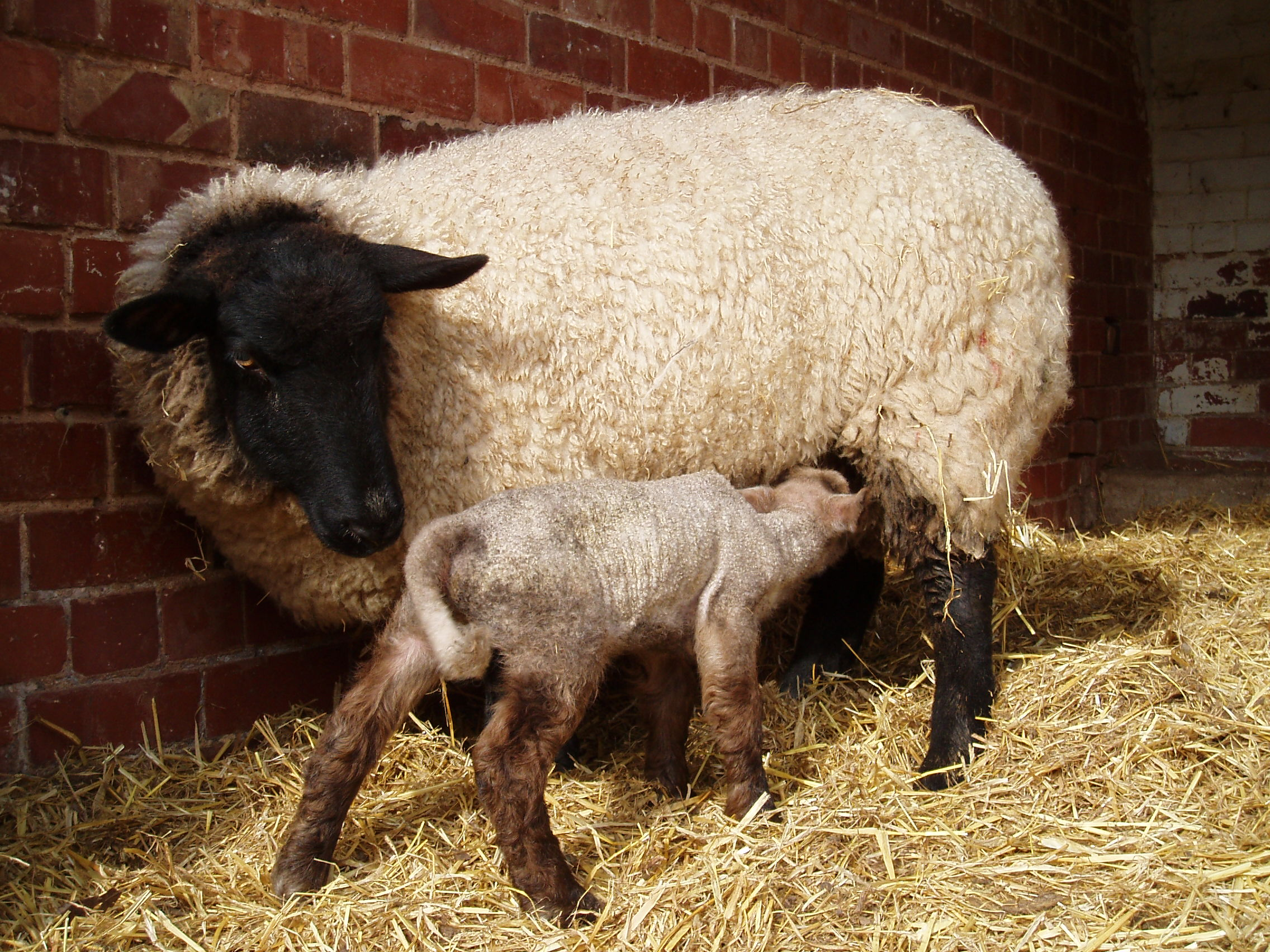 A cross-bred (Suffolk X North Country Mule) ewe suckles her lamb. This was the first lamb of the 2008 spring lambing at a farm in Coventry, England. Also, see Image:First Lamb 2008.jpg for the same pair.